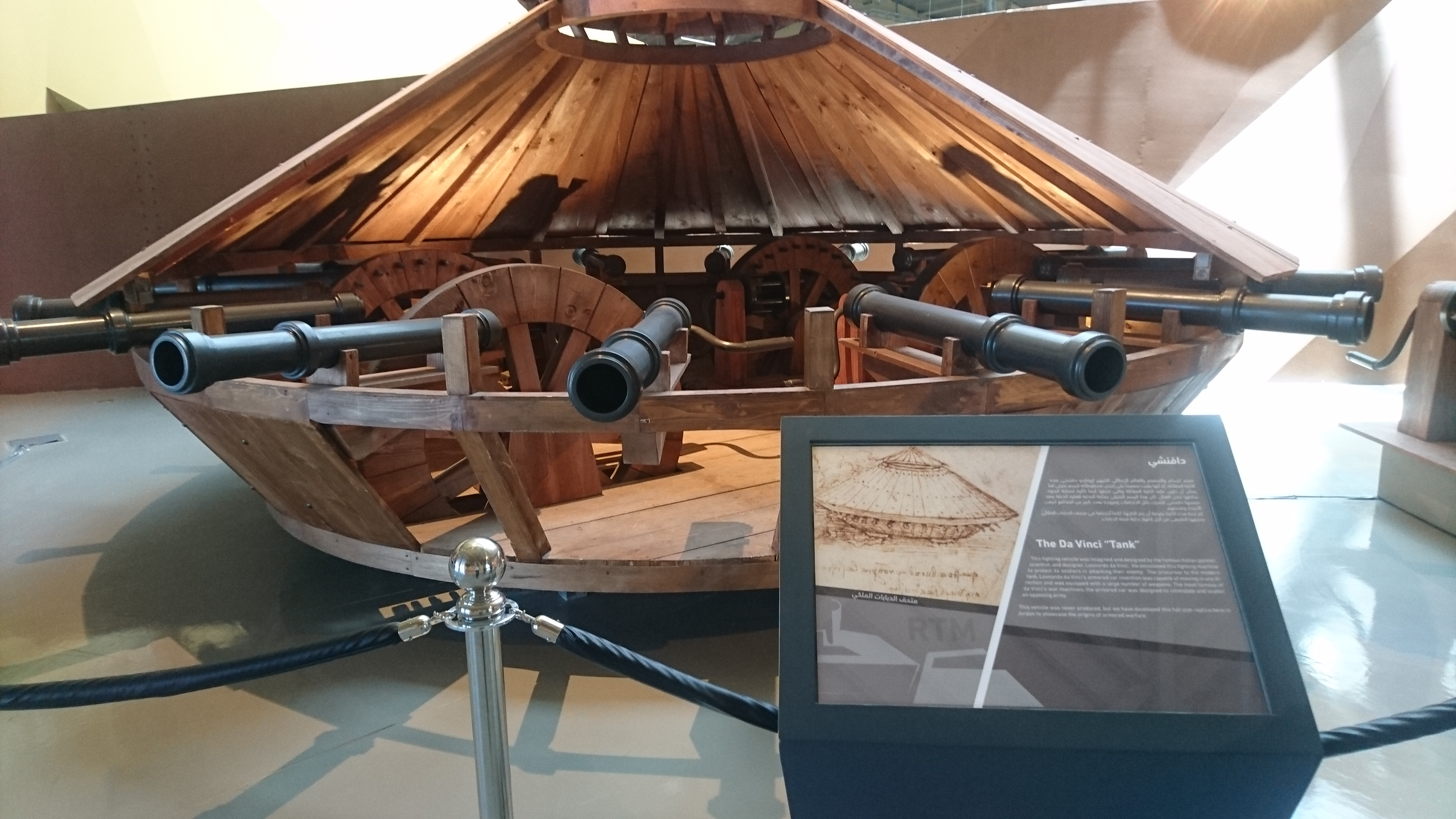 Royal Tank Museum in Amman, Jordan.